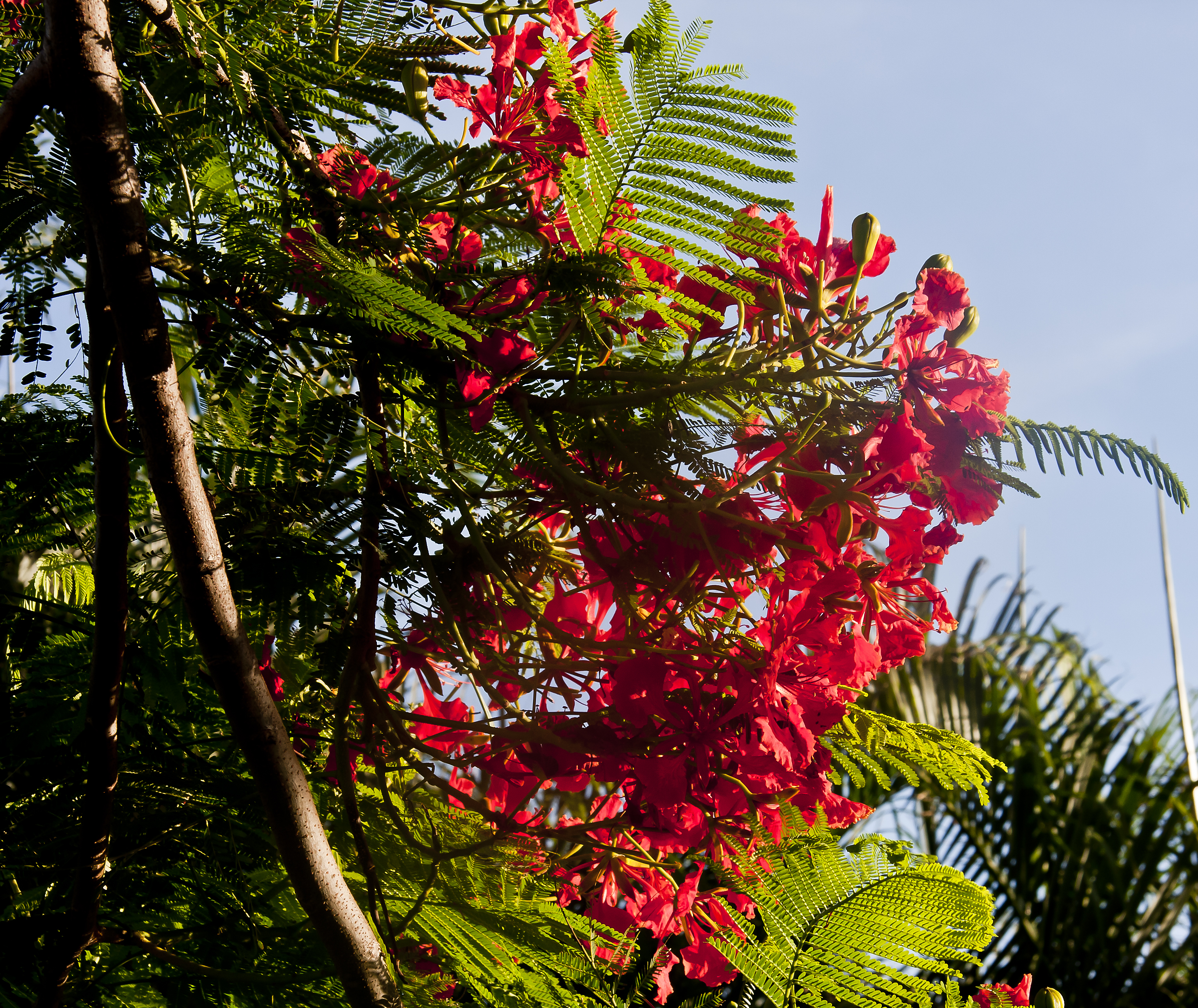 Royal Poinciana blooming in Sanya, China.